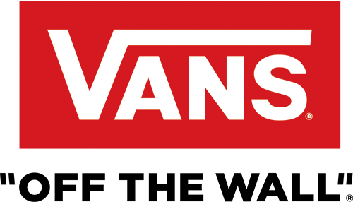 test